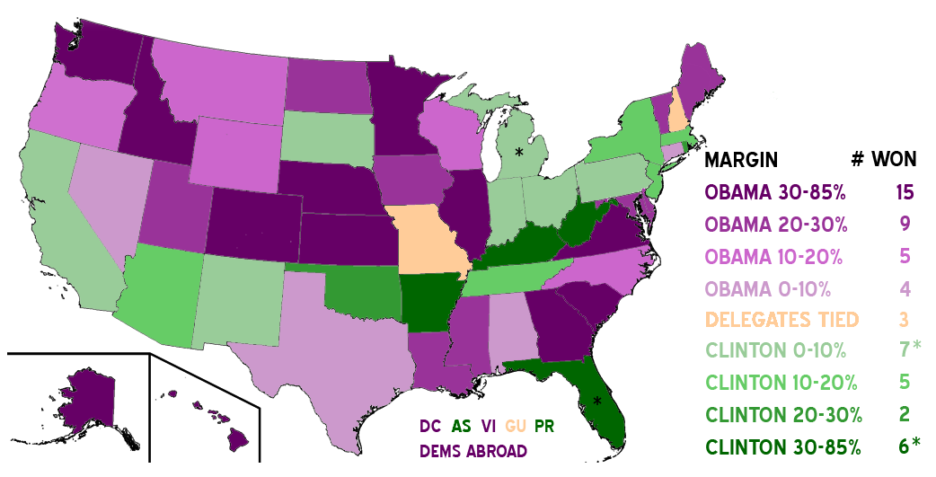 Delegate Count, Margins by State, US Democratic Presidential Primaries 2008. Pledged Delegate margins by state. Obama won the delegate count in the darkest purple states by the largest margins, while Clinton won the delegate count in the darkest green states by the largest margins. They tied in MO, NH, and GU. An alternate map exists depicting winners by popular vote. NOTE: This map is intended to reflect "election results." It reflects delegate changes that occur in states where delegates are selected through multiple events (e.g. IA, TX) but not delegate changes that have occurred in other states where bound delegates have indicated an intention to vote otherwise at the convention (e.g. NH, MD). Asterisks mark the disputed primaries of Florida and Michigan, which were originally nullified by the DNC, but later had their half of their delegate votes restored.